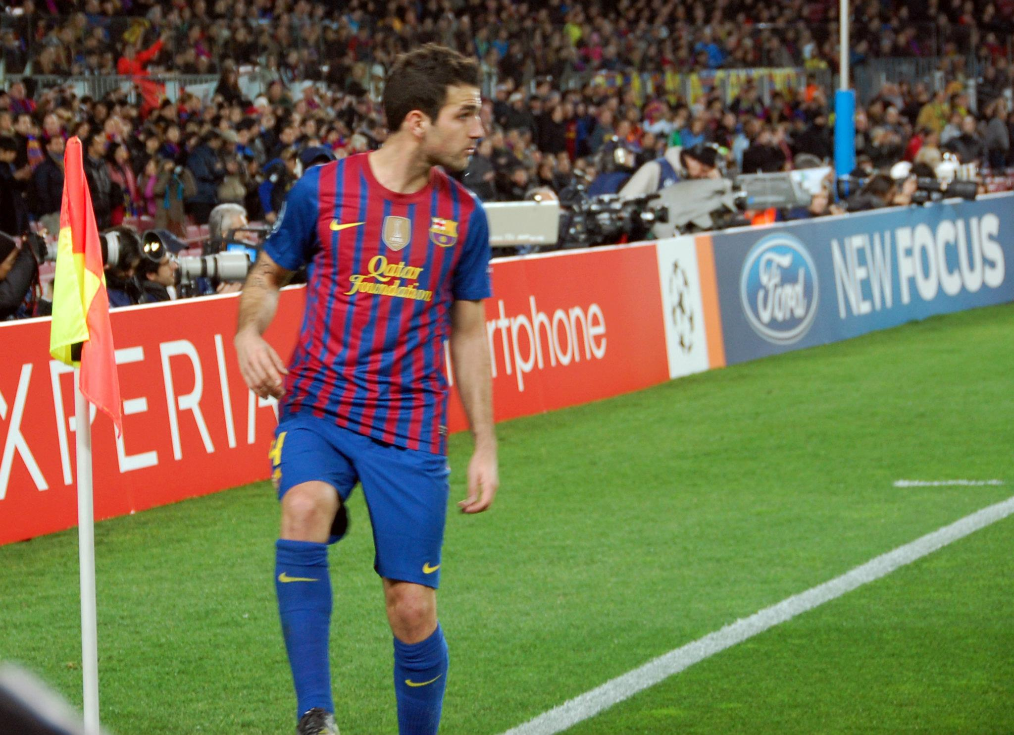 FC Barcelona - Bayer 04 Leverkusen, 1/8 Final UEFA Champions League, Season 2011/2012